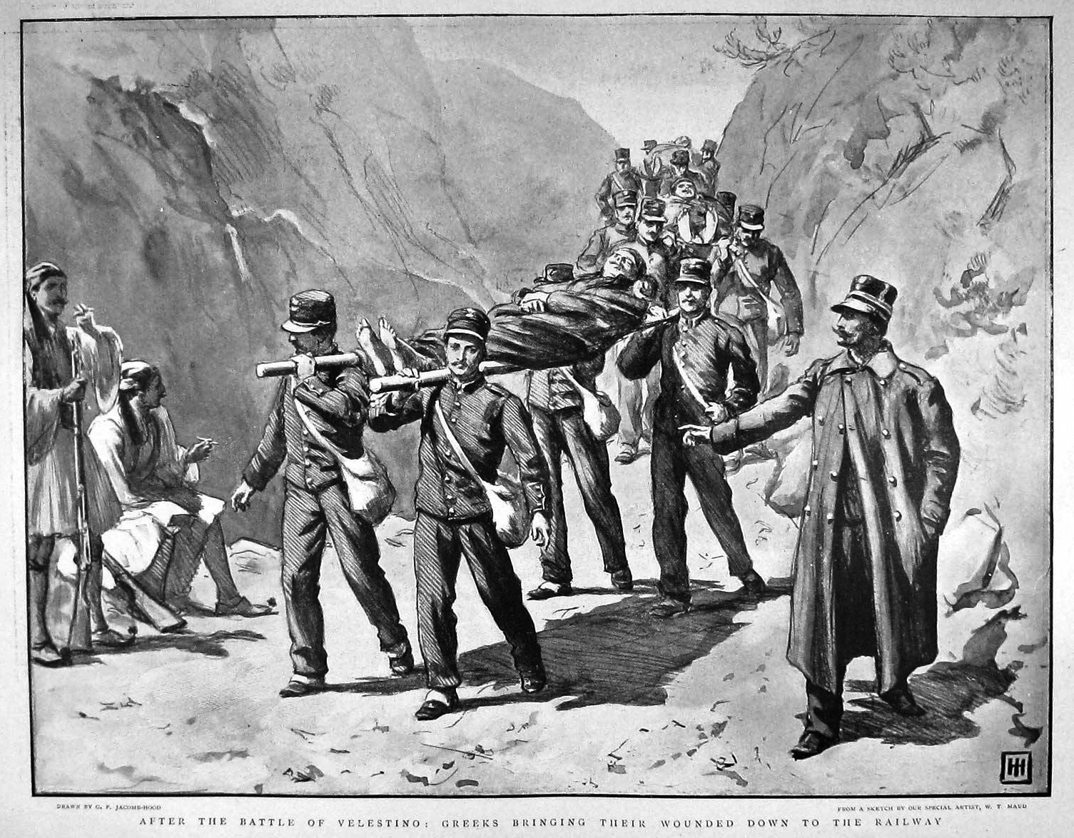 Transport of wounded Greek soldiers to the rear after the Battle of Velestino during the Greco-Turkish War of 1897